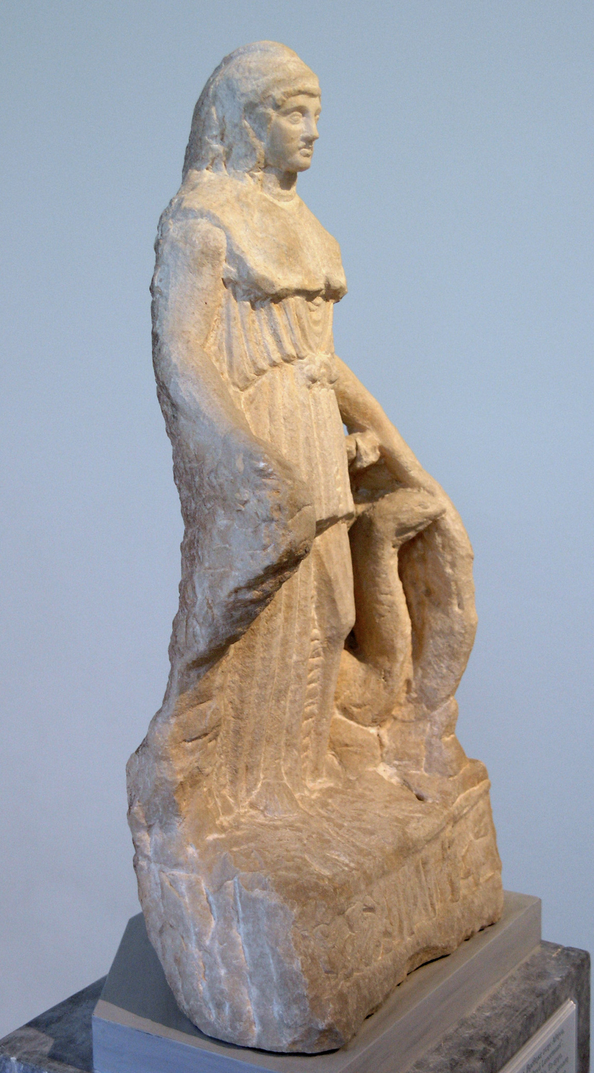 Statuette of Athena. Pentelic marble. Found in Athens, near the Pnyx. Known as the "Lenormant Athena", this statuette copies the Athena Parthenos by Pheidias. Although unfinished, the work is important because it preserves the relief representation of an Amazonomachy on the exterior of the shield and the relief image of the Birth of Pandora on the base — themes that adorned the original statue of Athena. The copy probably dates to the 1st century AD.